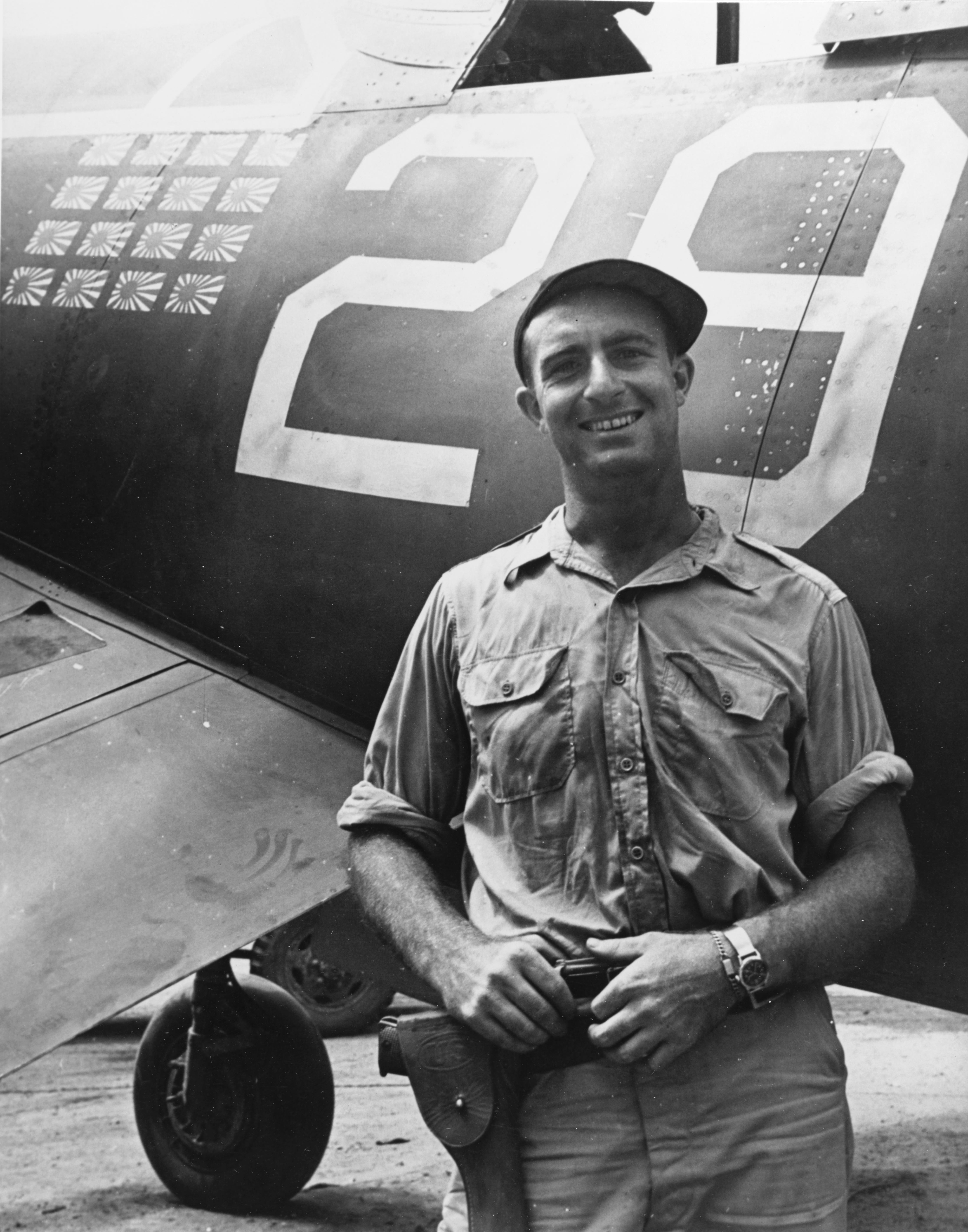 U.S. Navy Lieutenant Junior Grade Ira "Ike" Kepford pictured towards the end of his second combat deployment, 26 March 1944. From the time this image was taken up until 20 June 1944, Kepford was the highest scoring ace in the U.S. Navy with 16 credited aerial victories. This score can be seen on his #29 aircraft, denoted via the Rising Sun flags stenciled to the left of the aircraft number. Kepford was assigned to Fighter Squadron 17 (VF-17) "Jolly Rogers".